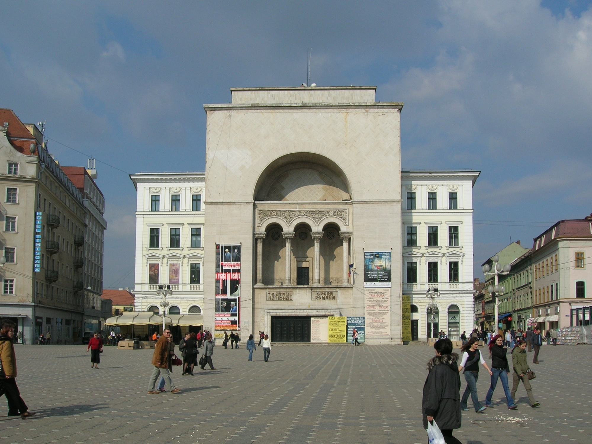 National Theatre and Opera on Piaţa Victoriei - Timişoara (Romania).